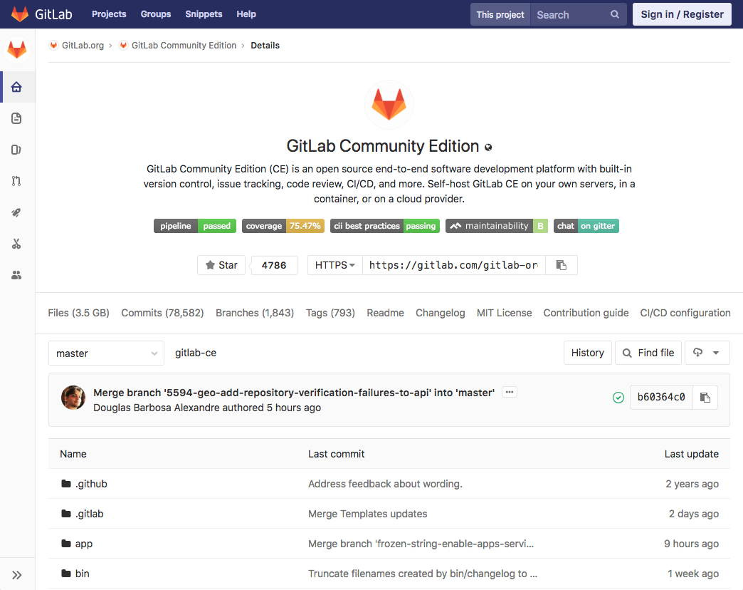 Screenshot of GitLab running 11.0, displaying the main page of the open-source version of GitLab's own repository